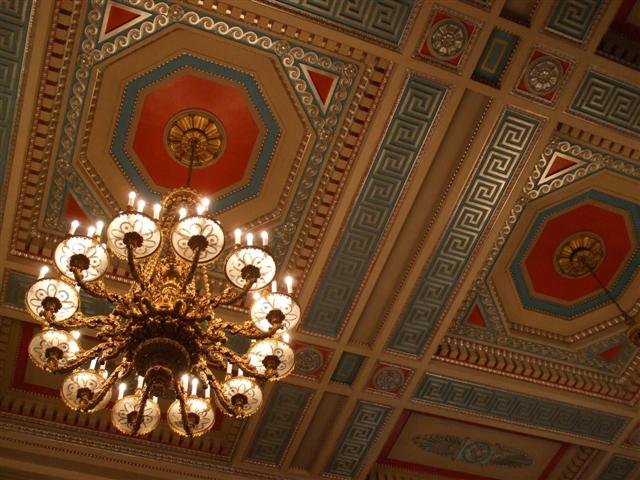 Parliament Buildings, Stormont - interior In the main hallway of the building hangs a chandelier which was a gift from King George the V which as a gift from Kaiser Wilhelm II had hung in Windsor castle until the beginning of WW1 (perhaps considered inappropriate for royal residences after the war). After Windsor Castle was destroyed by fire, an inventory was drawn up and it was discovered that this priceless item was missing and HRH Queen Elizabeth expressed an interest in getting it back. The Stormont ministers were reluctant to return it and an agreement was made that it should remain in-situ provided that it was well taken care of. There are several other smaller chandeliers hanging from the ceiling made by Harland and Wolfe which match it in style. Another notable item is the ceiling paintwork which has never been re-done in the lifetime of the building. The painter added an extra ingredient into the mix to ensure it lasted and went with the secret of it to his grave.